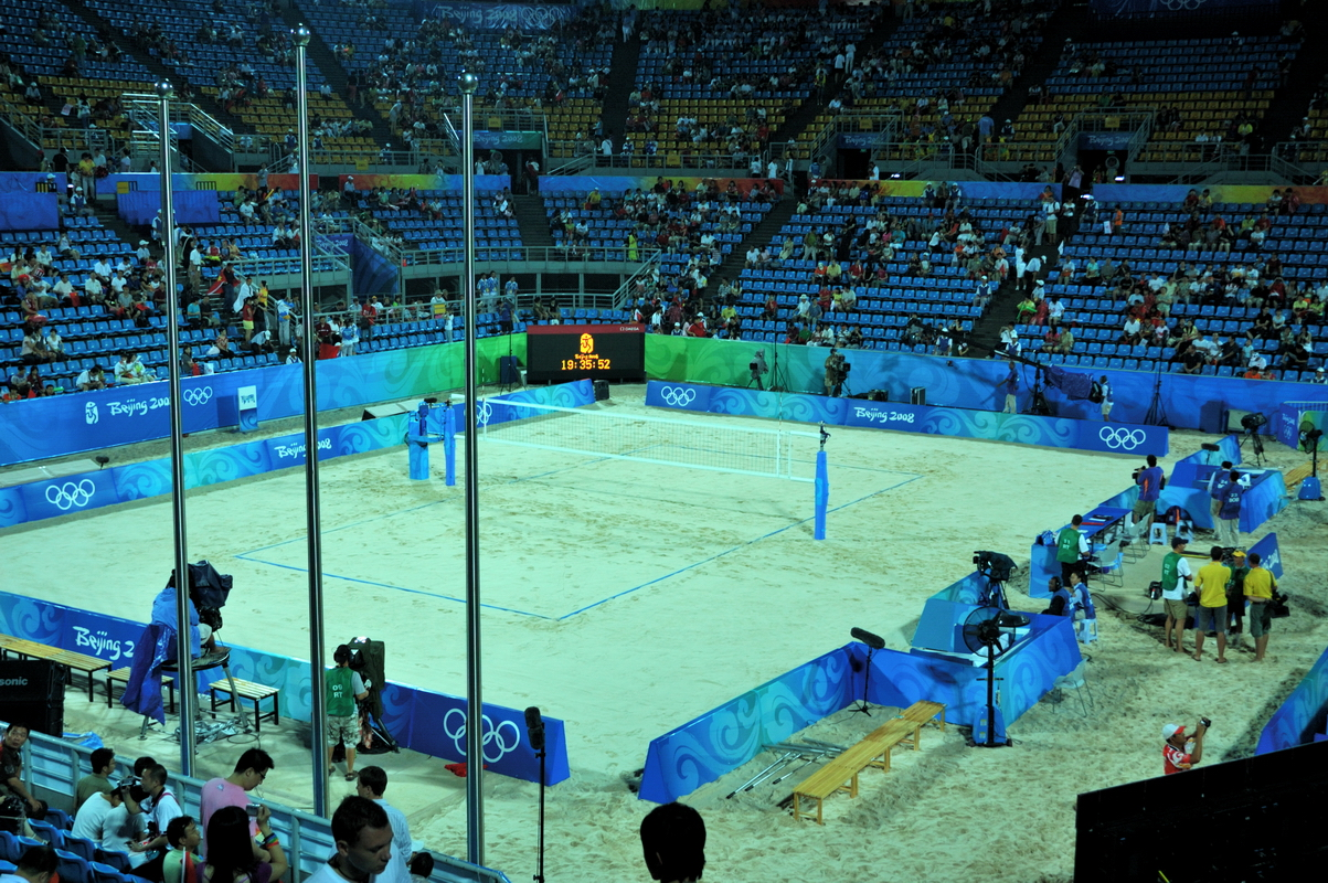 The Beach Volleyball Ground for the 2008 Summer Olympics.